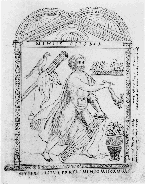 Month of October from in the Chronography of 354 by the 4th century kalligrapher Filocalus. The copies of the original illustrations are pen drawings in a 17th century manuscript from the Barberini collection (Vatican Library, cod. Barberini lat. 2154).